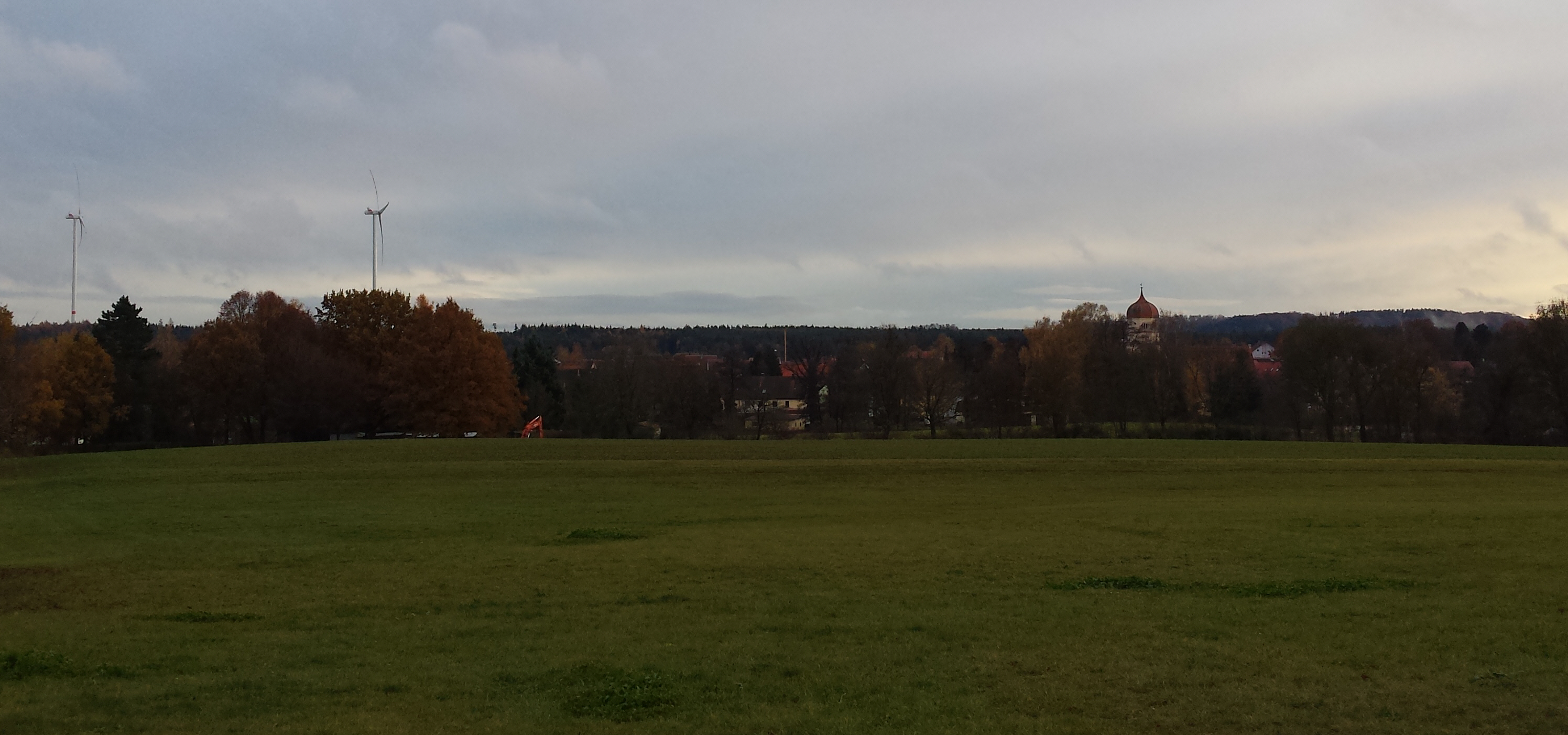 Mönchsroth